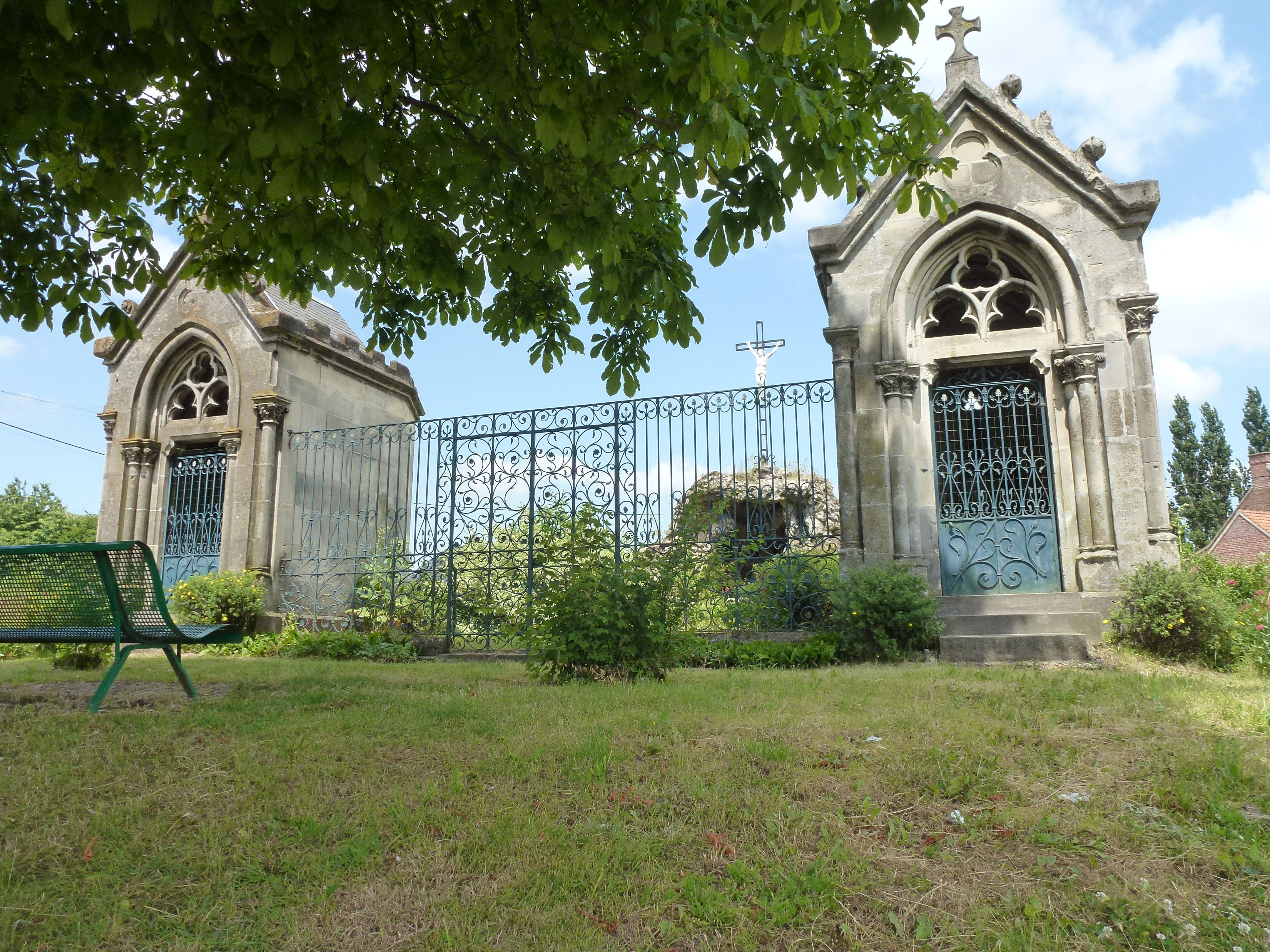 Essars (Pas-de-Calais, Fr) les deux chapelles et la croix au-dessus de la grotte au lieu-dit La Croix de Fer